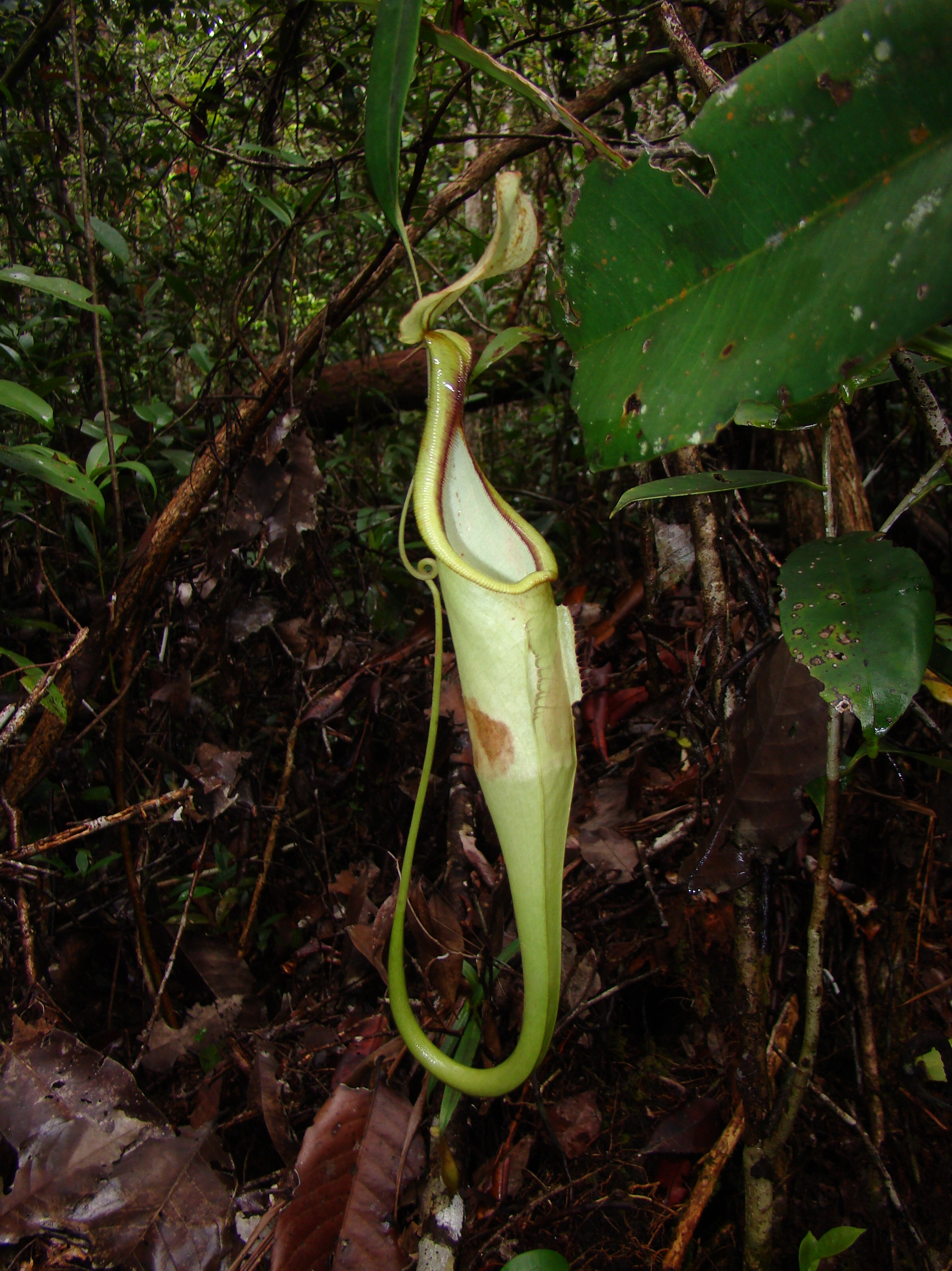 Nepenthes hemsleyana upper pitcher, Brunei